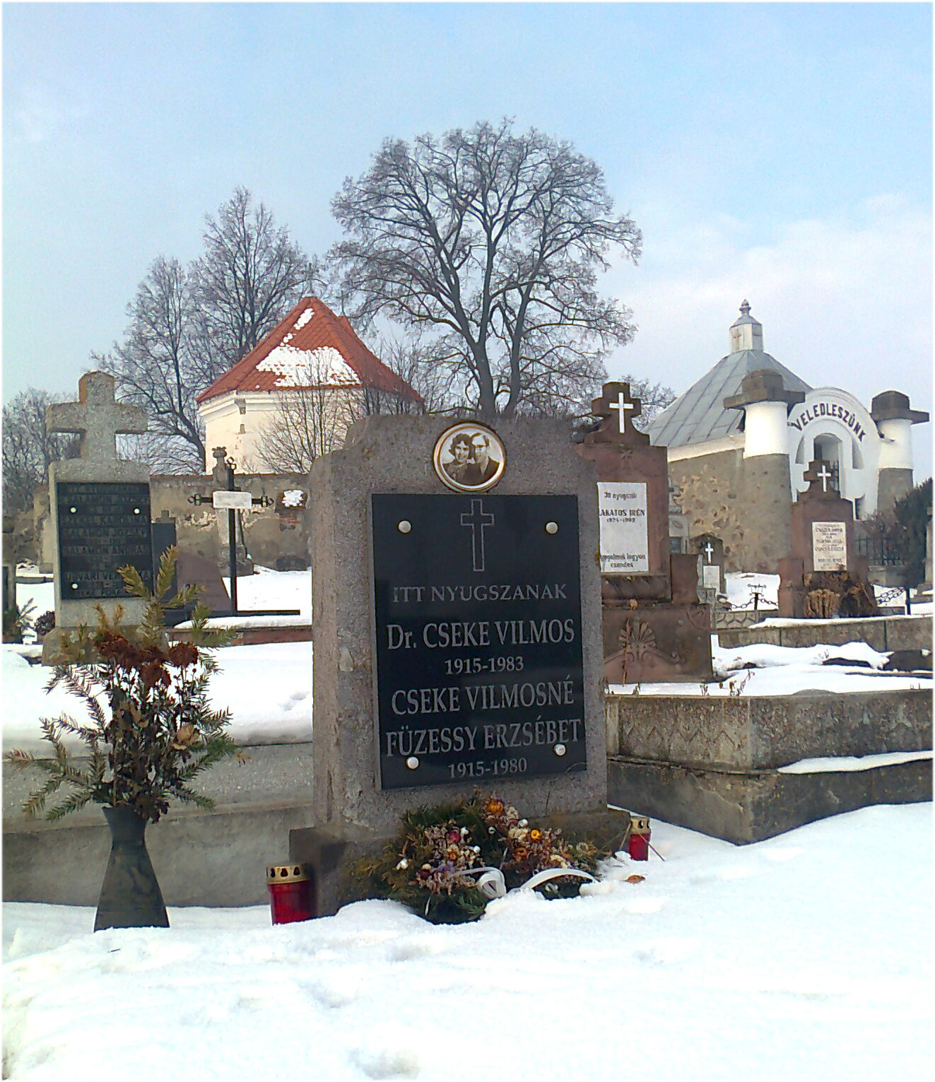 Grave of Vilmos Cseke (1915-1983), mathematician, Sâncrăieni, Transylvania, Romania